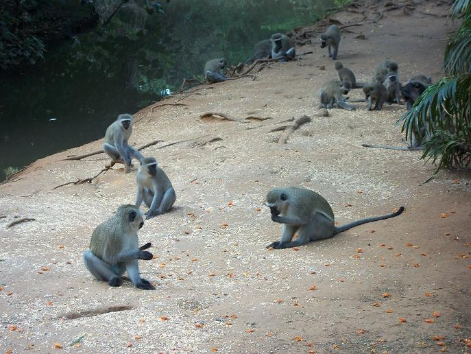 Vervet Monkeys at Umdoni Bird Sanctuary, Amanzimtoti, feeding on bird seed (maize, sorghum and sunflower)